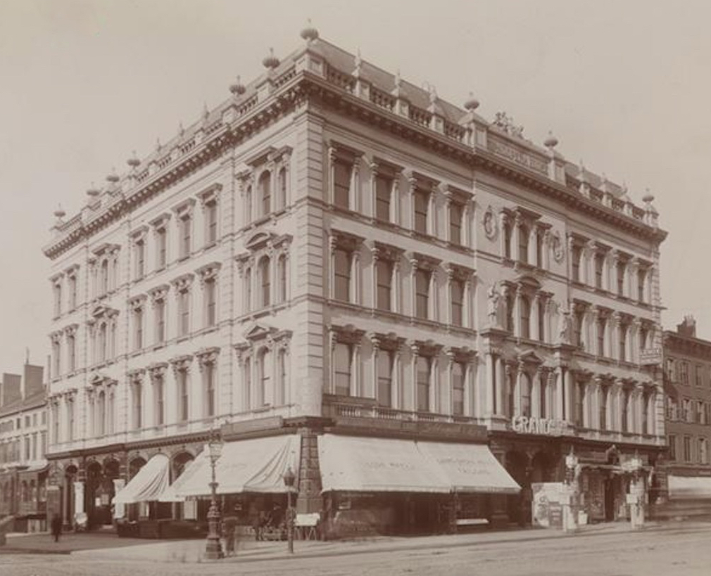 Grand Opera House, northwest corner of Eighth Avenue and 23rd Street, New York, N. Y.